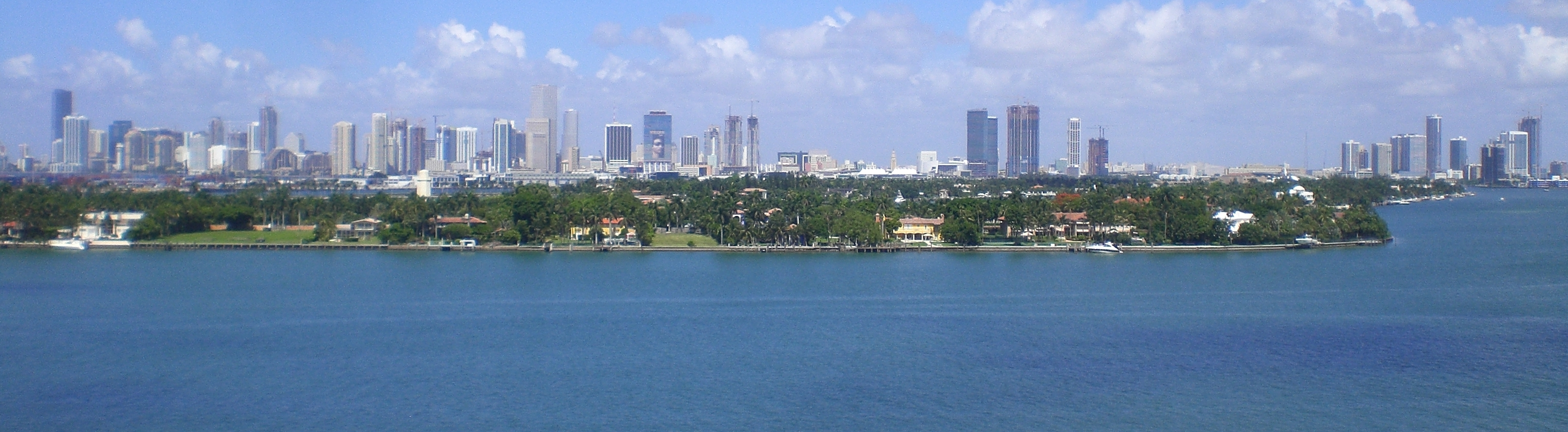 Skyline of Miami as seen from South Beach on 7/10/2007.